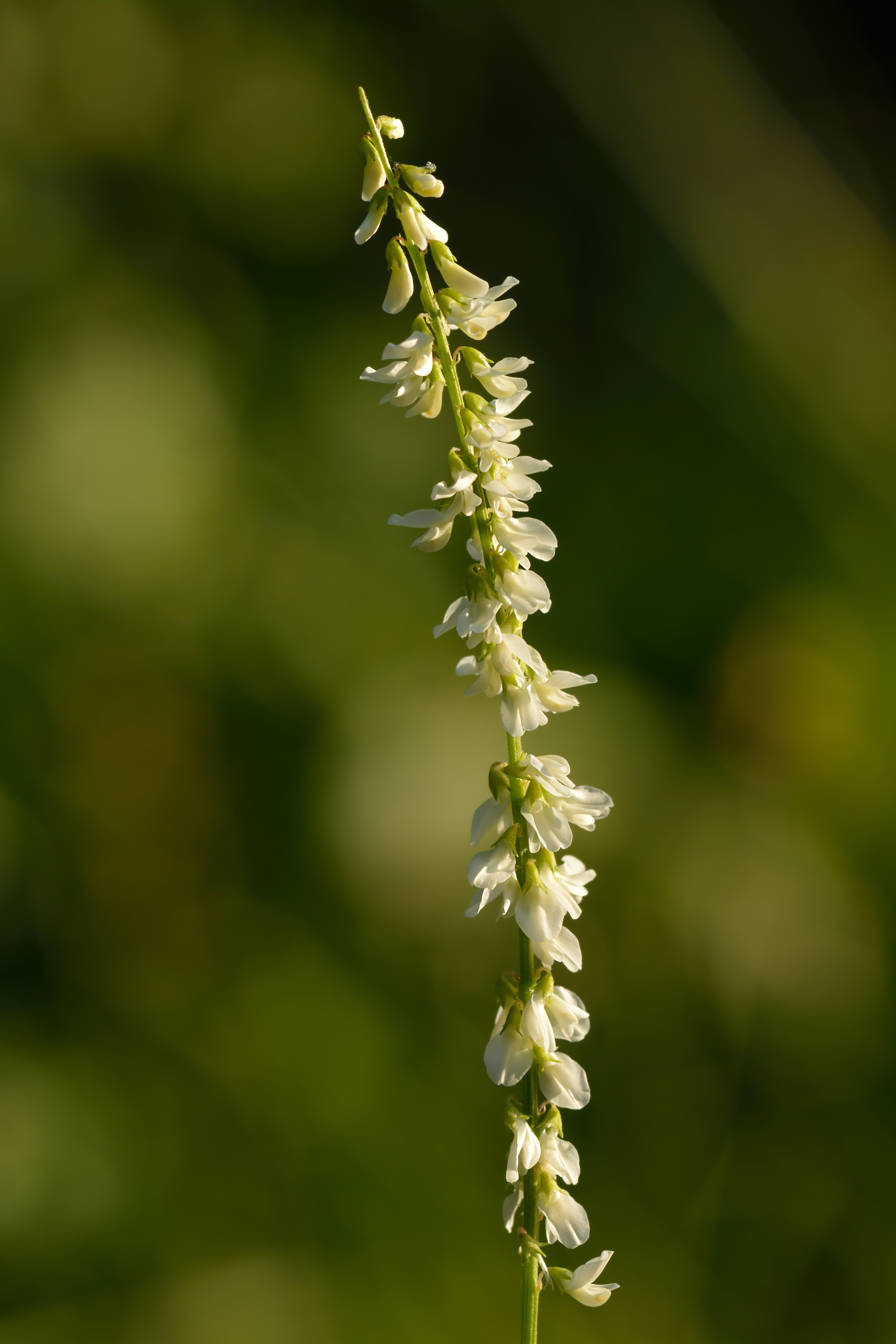 White sweet clover (Melilotus albus). Keila, Northwestern Estonia.